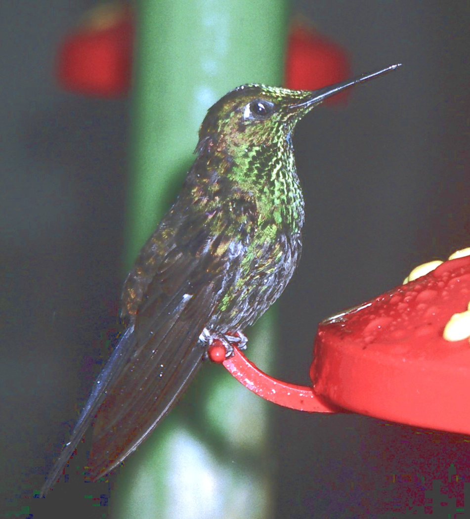 Green-crowned brilliant